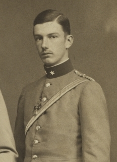 Archduke Hubert Salvator of Austria (1894-1971)